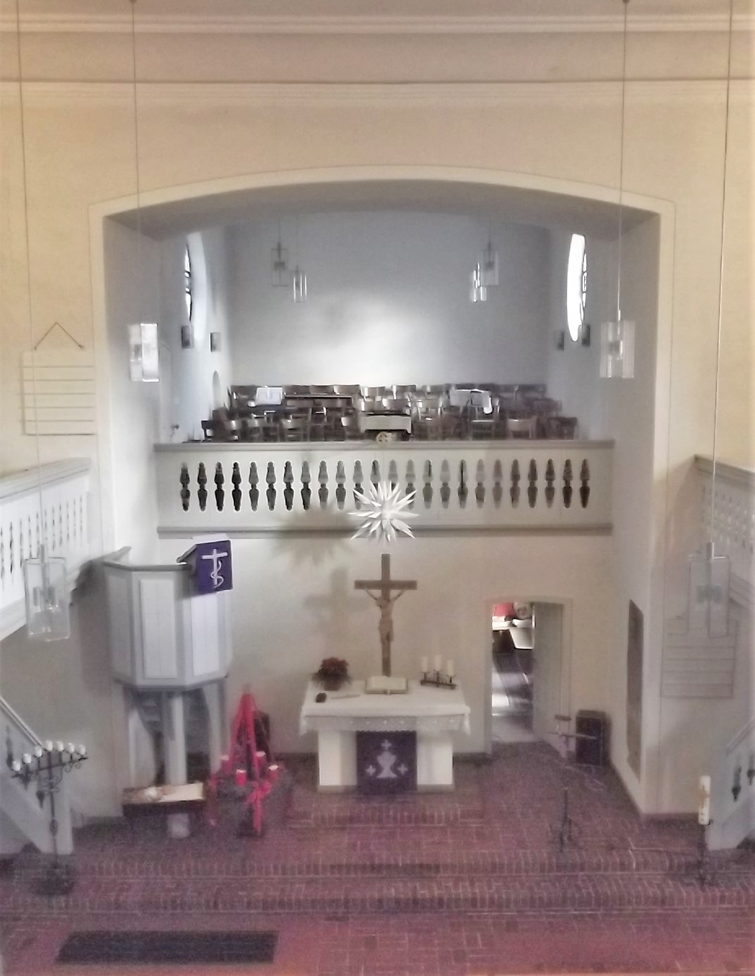 Interior of the protestant church in Dirmingen, Saarland